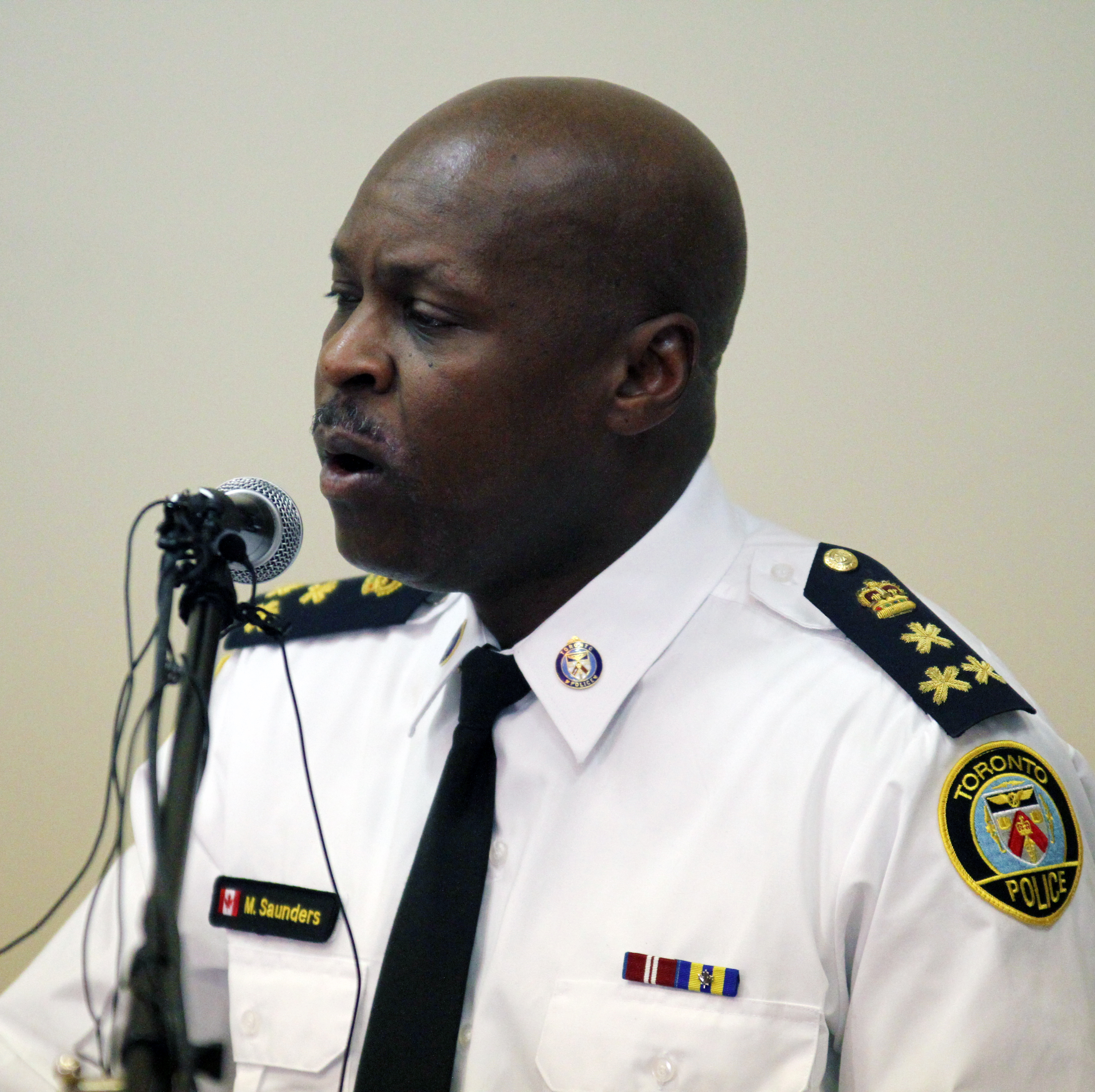 Toronto Police Chief Mark Saunders at the 2015 African Canadian Summit